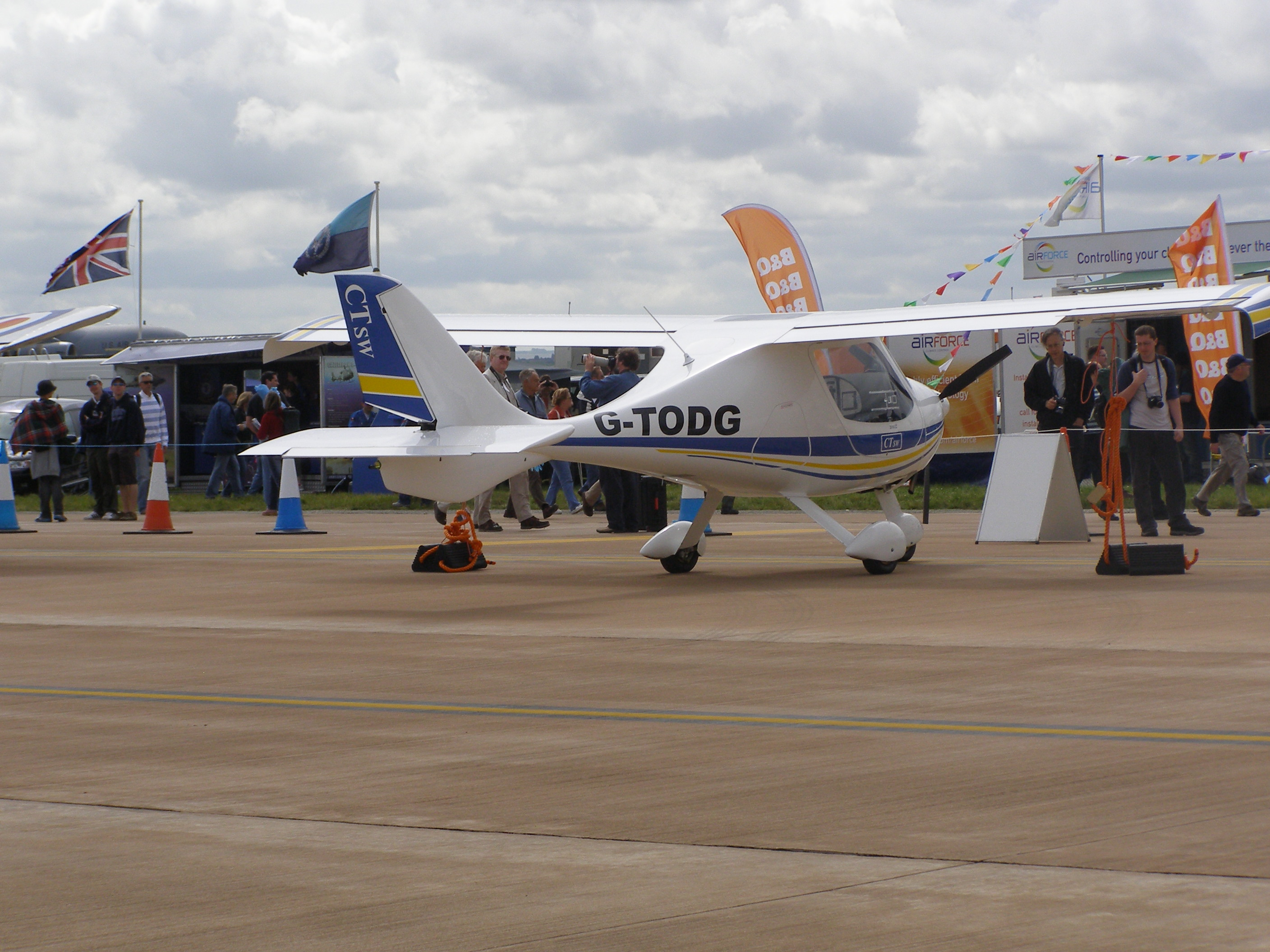 Flight Design CTSW registered G-TODG on display at RAF Fairford in 2007